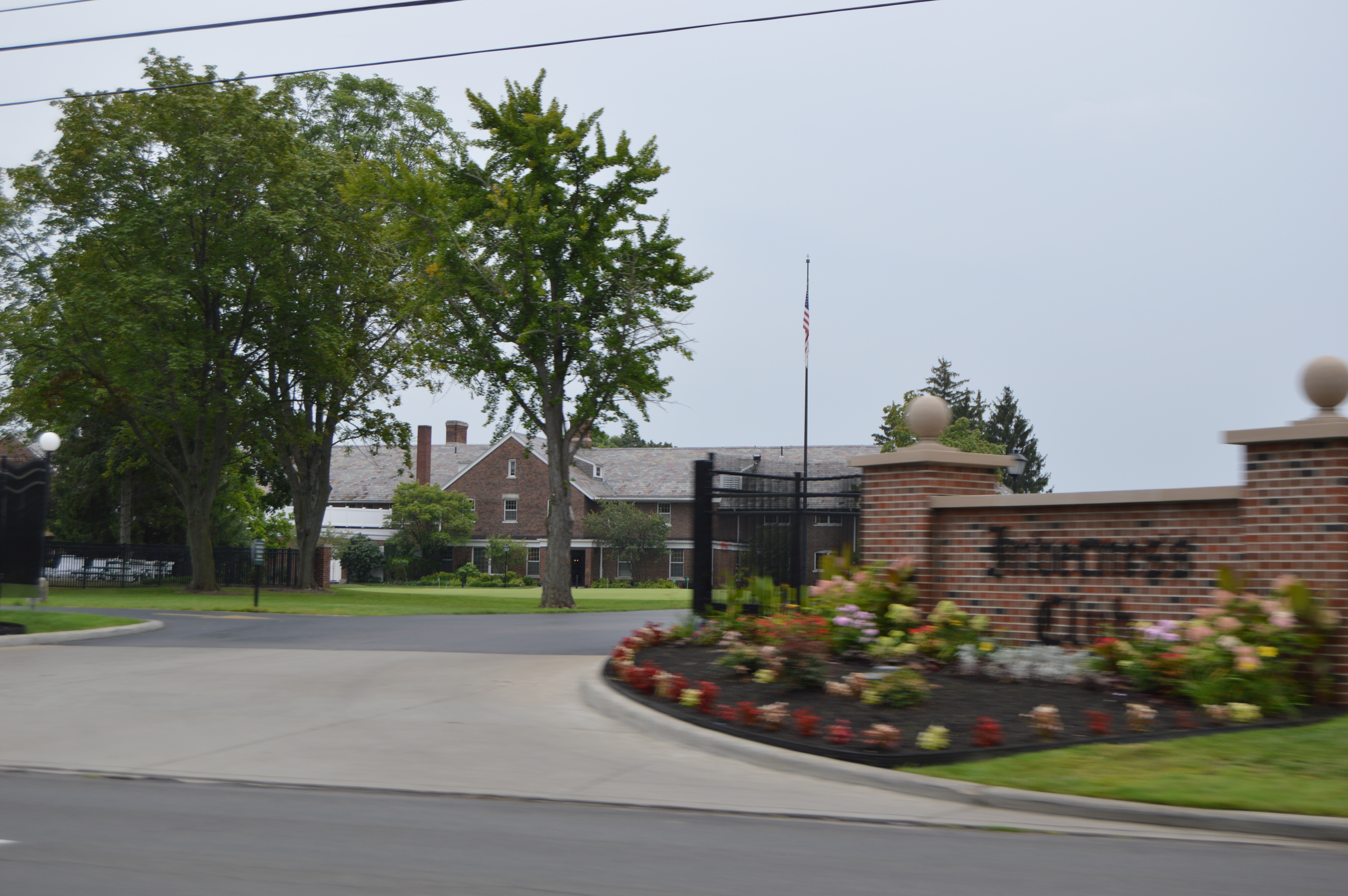 Roadside view of the main building at the Inverness Club, located at 4601 Dorr Street (State Route 246) in Toledo, Ohio, United States. The club is listed on the National Register of Historic Places as a historic district.